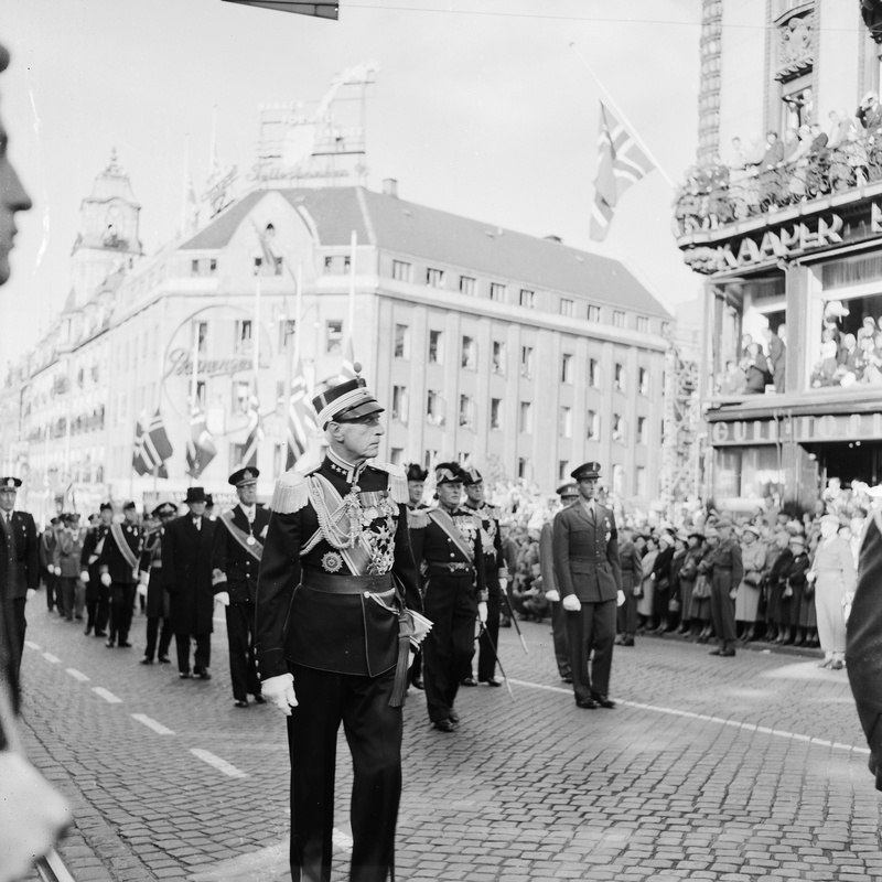 Funeral of Haakon VII of Norway